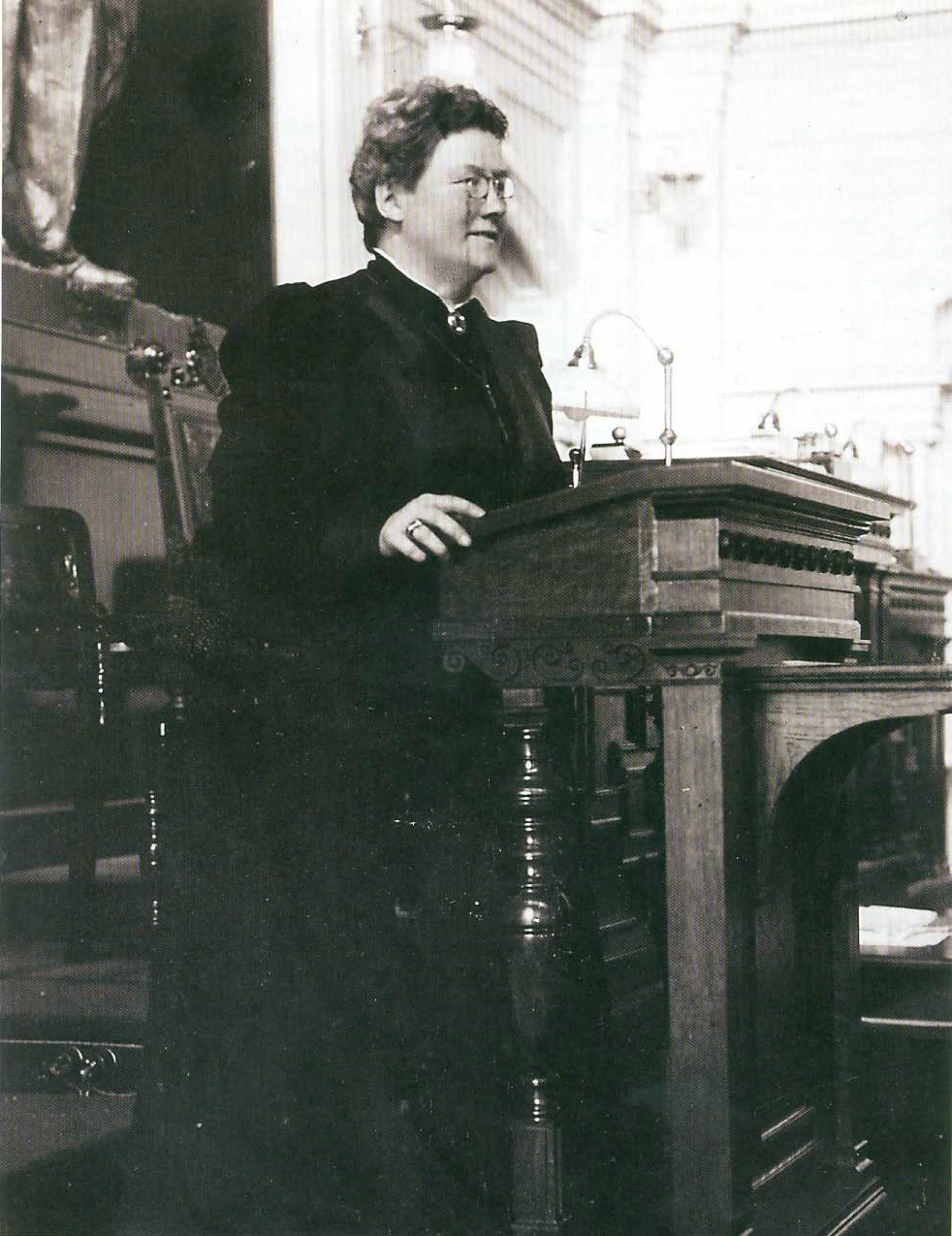 Aleksandra Gripenberg speaking at the Finnish parliament.